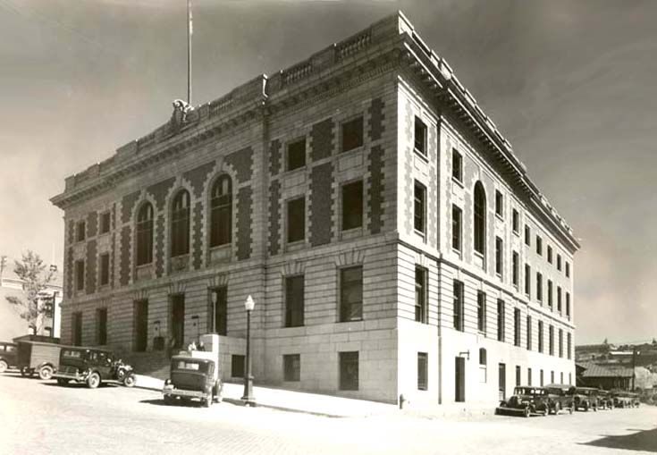 Butte, Montana U.S. Post Office (1933) Completed in 1904. Supervising Architect: James Knox Taylor Extension completed in 1933. Supervising Architect of extension: James A. Wetmore Still in use by the U.S. District Court for the District of Montana; the U.S. Circuit Court for the District of Montana met here until that court was abolished in 1912. Renamed the Mike Mansfield Federal Building and United States Courthouse in 2002.